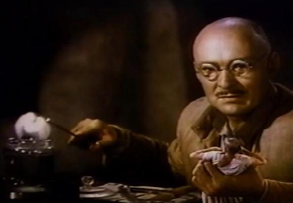 Albert Dekker in Dr. Cyclops - trailer (cropped screenshot)